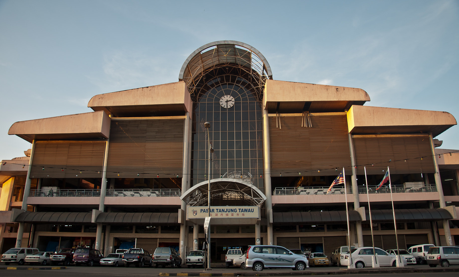 Tawau, Sabah: Pasar Tanjung Tawau, the big markethall near the harbour of Tawau, Sabah, Malaysia; view from Dunlop Street